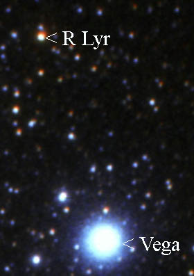 Position of R Lyrae relative to Vega. Compare to Wikisky version.